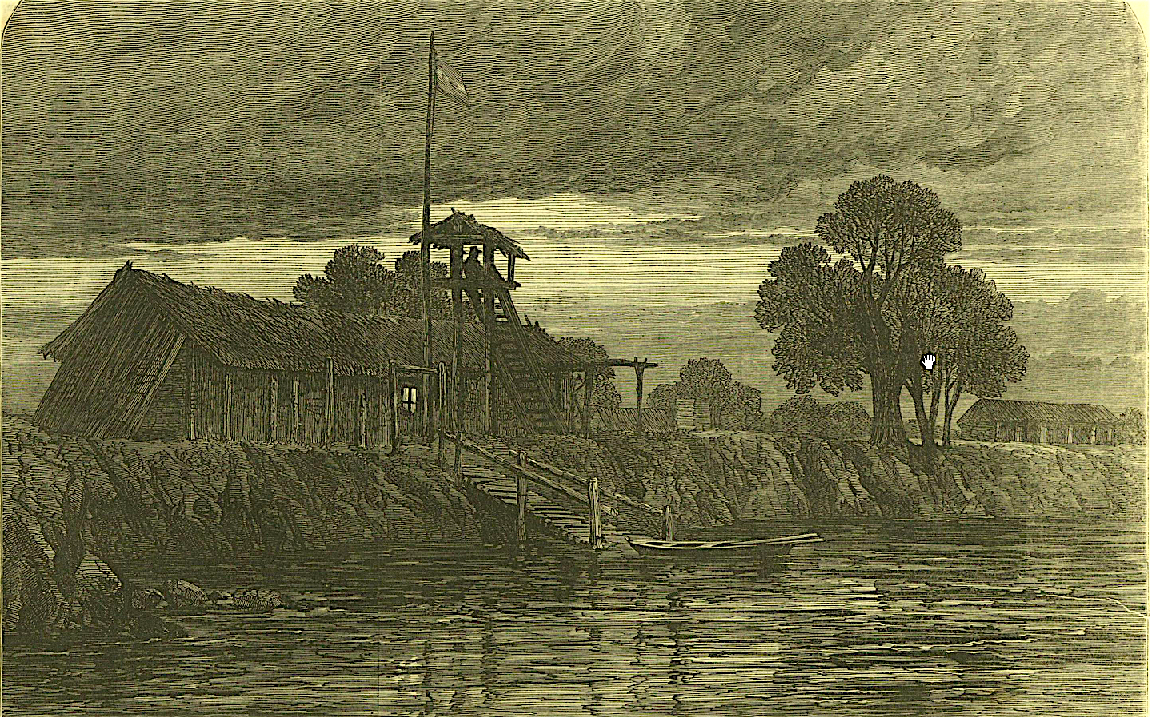 The Guard-House of Humaitá according to an engraving in the Illustrated London News, 1864.